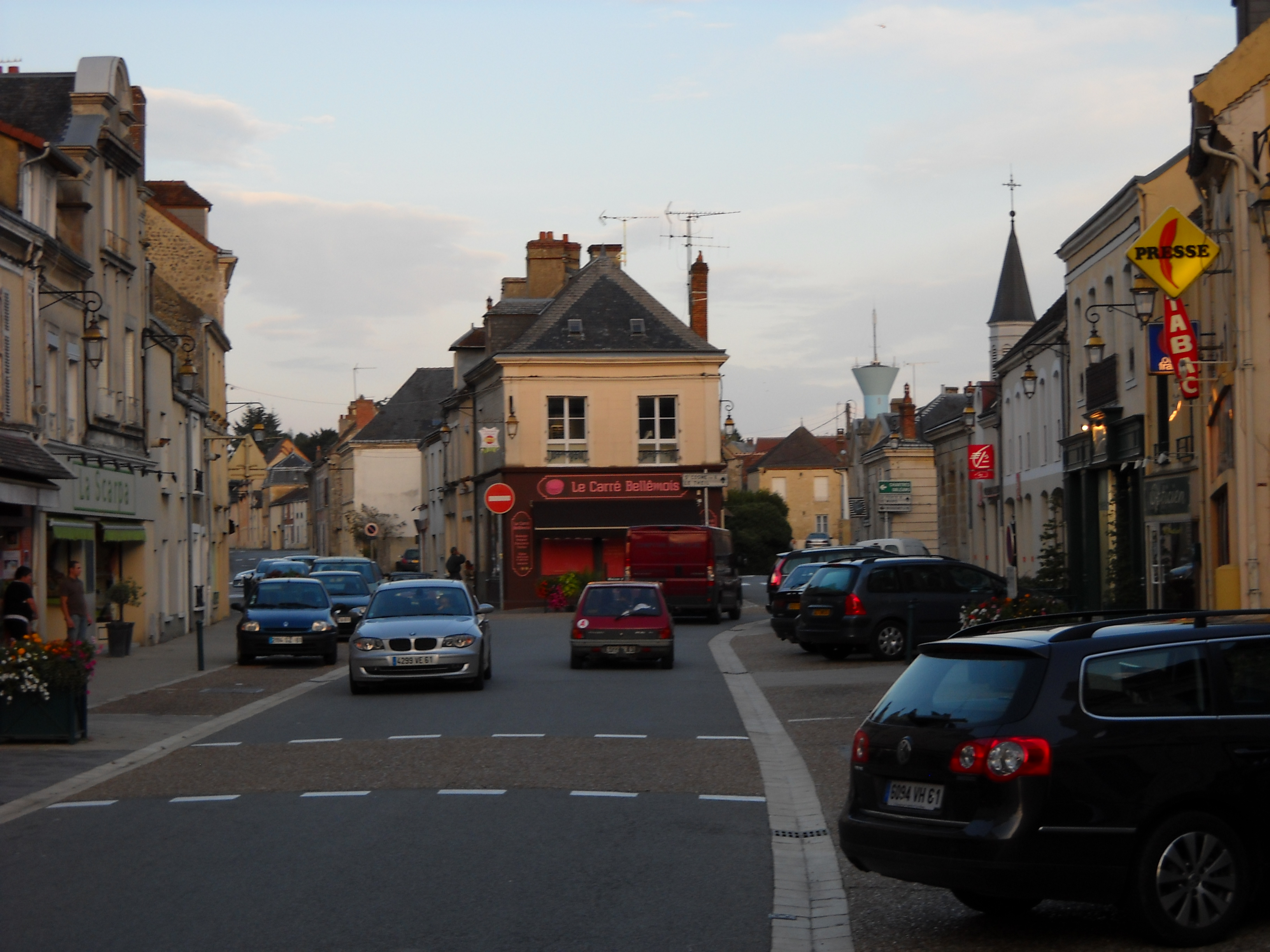 A street of Bellême, Orne, France.